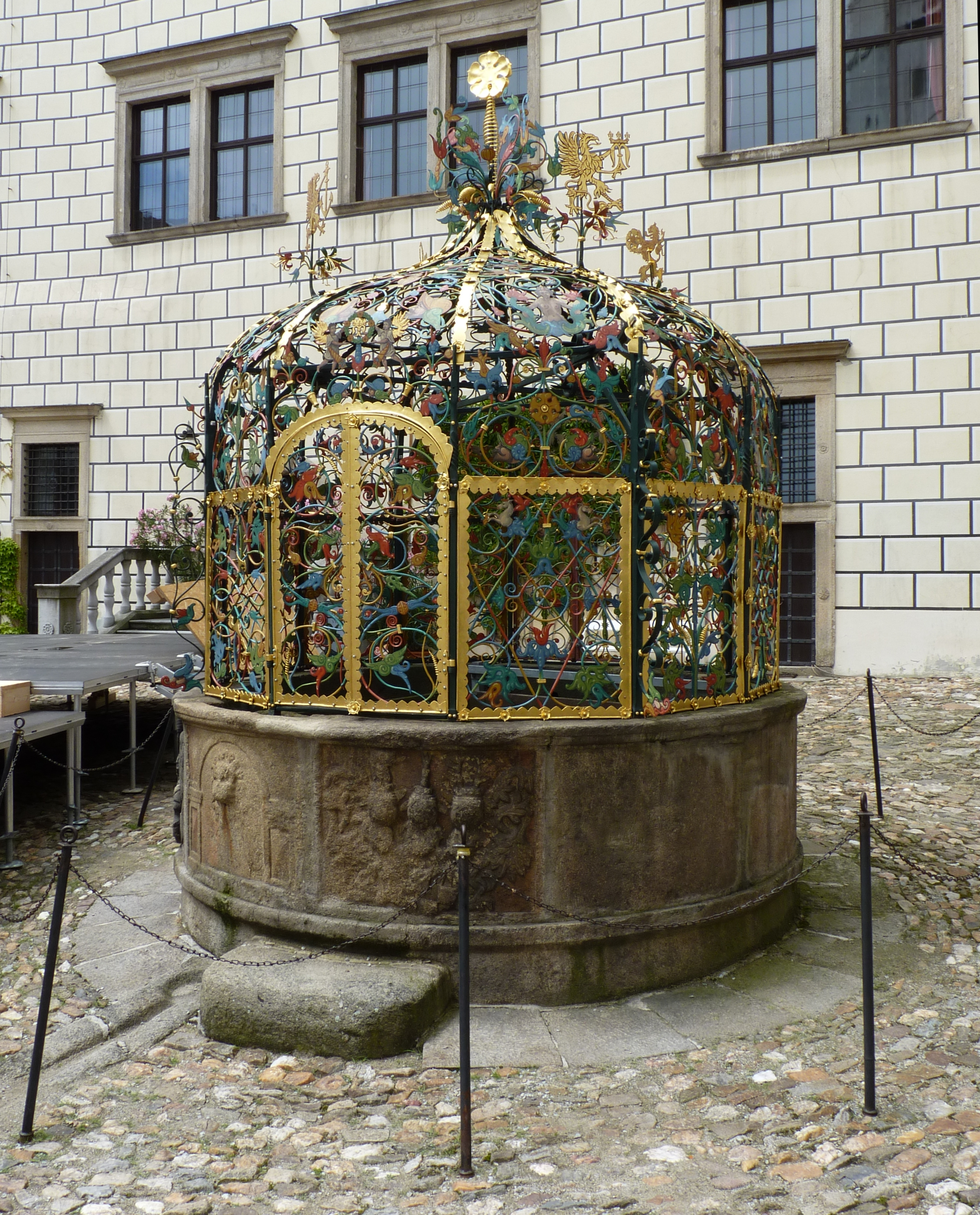 Castle in Jindřichův Hradec. Jindřichův Hradec District, South Bohemian Region, Czech Republic